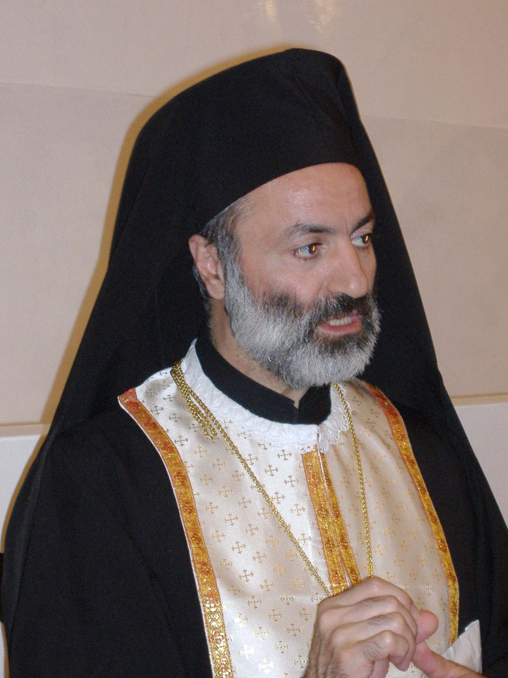 Melkite Archimandrite Father Mtanios Haddad